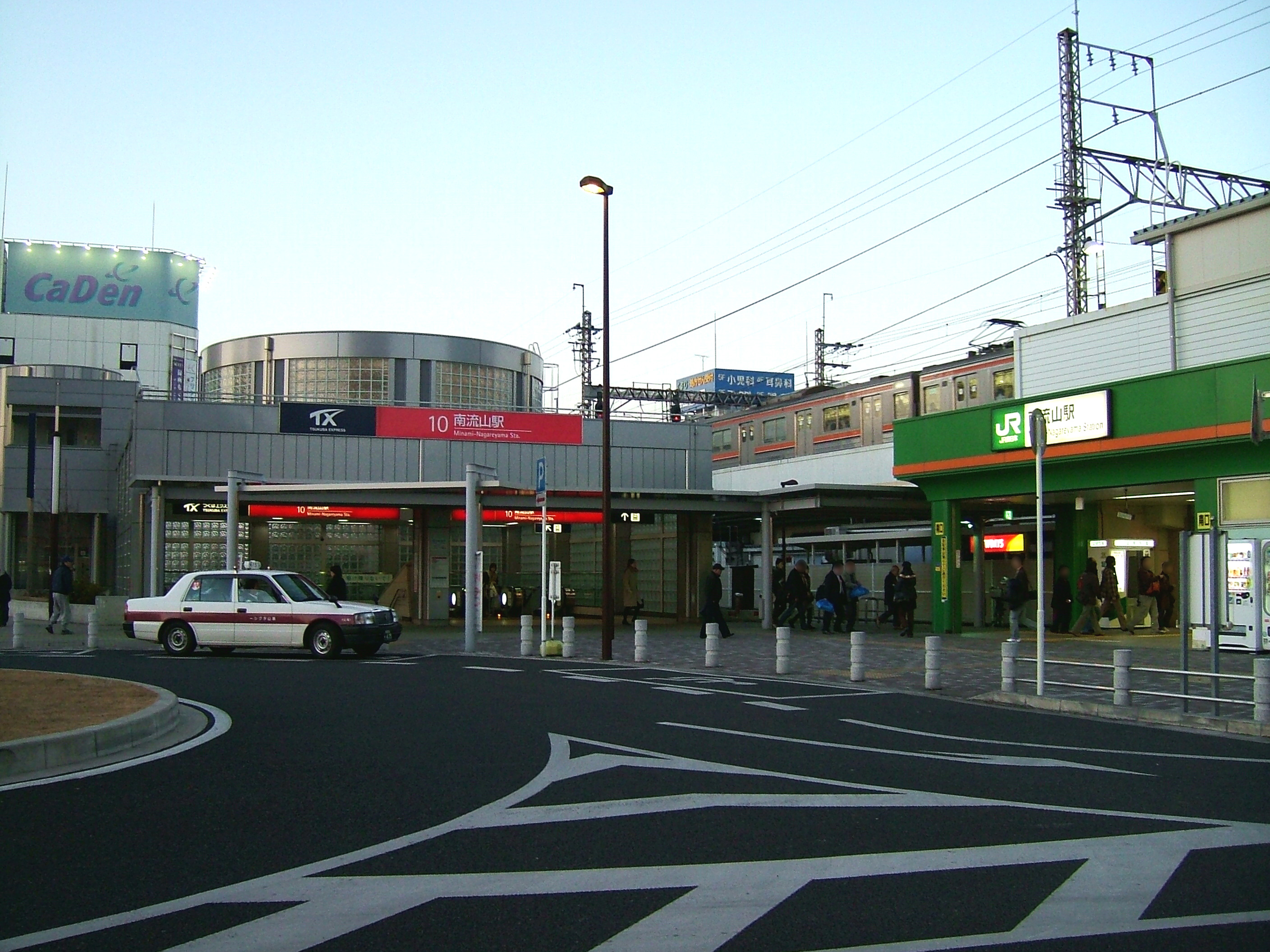 Minami-nagareyama Station (Tsukuba Express on left side, Musashino Line on right side)